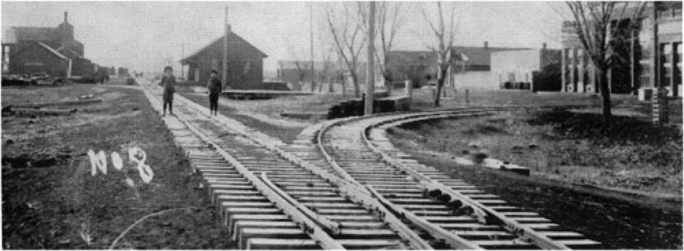 The main station in Espanola, 1885.